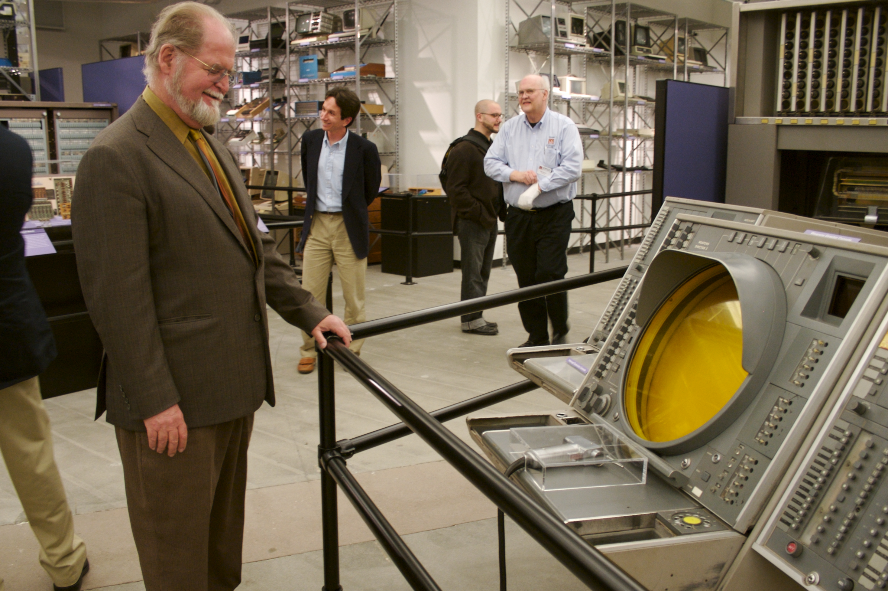 Larry Niven admires the SAGE (Semi-Automatic Ground Environment) air-defense operator's console, at the Computer History Museum in Mountain View, California.